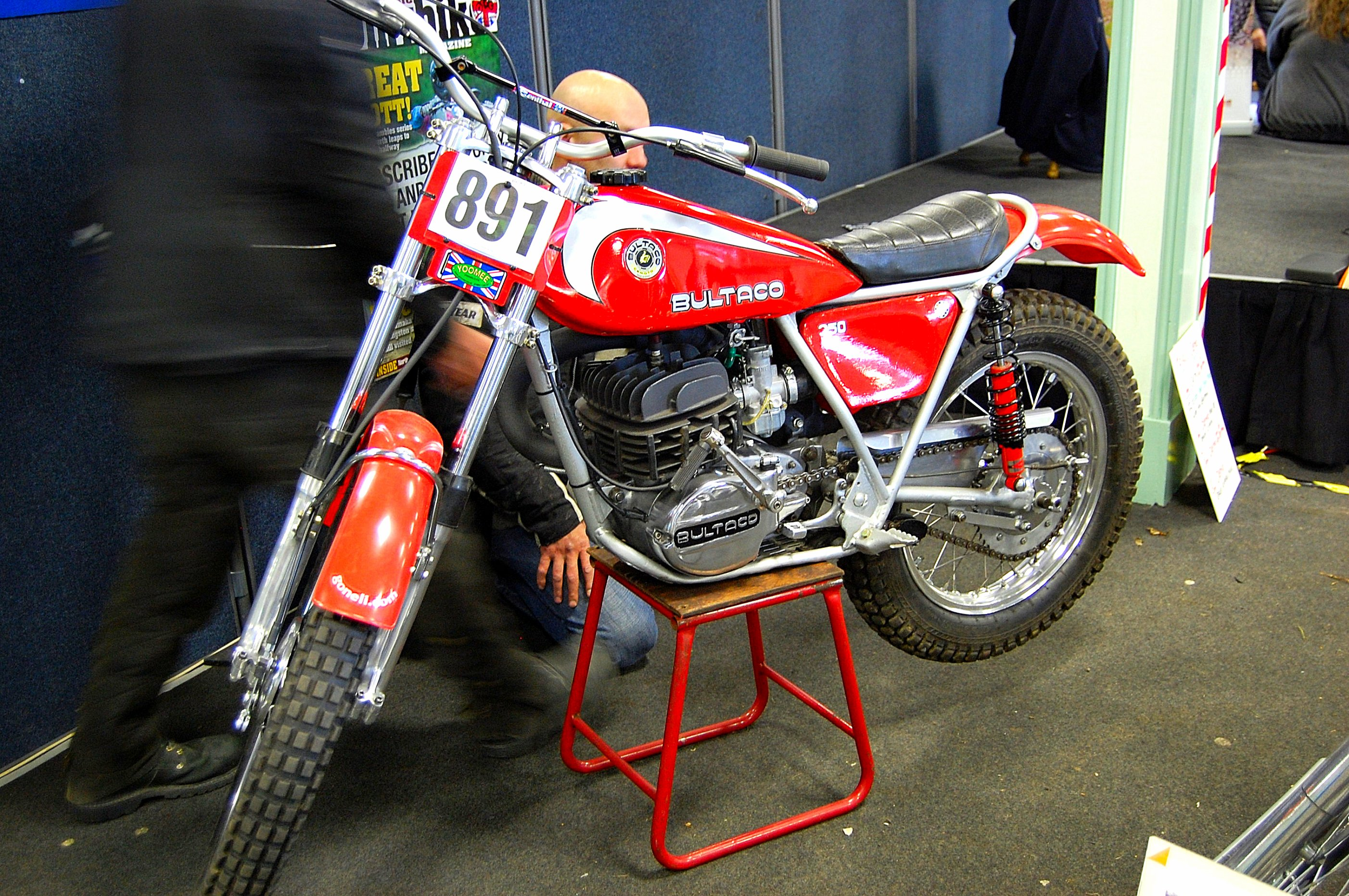 A Bultaco Sherpa T 350cc from 1976.